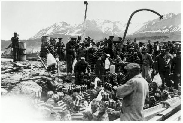 The Tren del Fin del Mundo of Ushuaia carrying convicts, scoreted by Police officers.